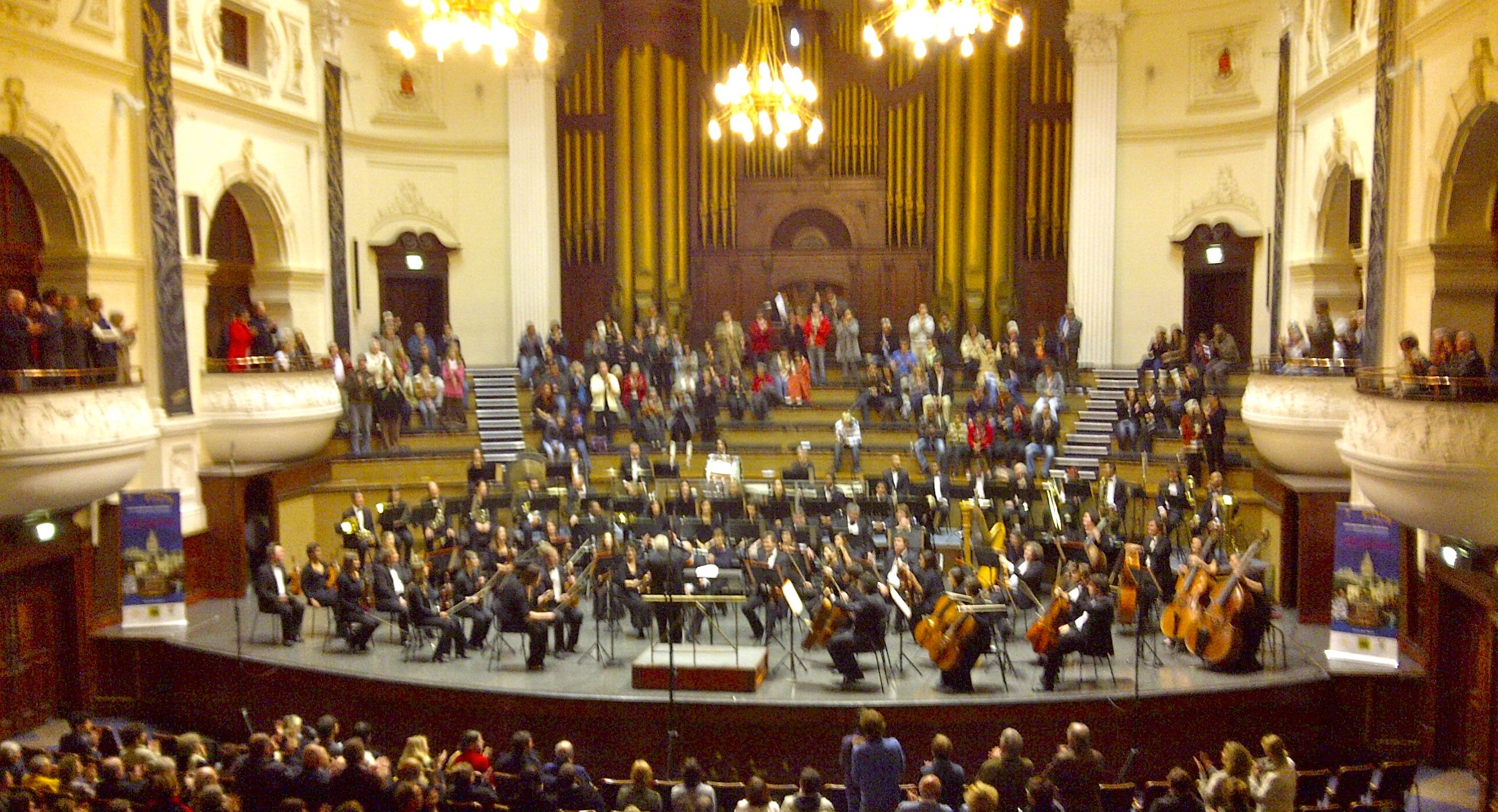 Photo taken at a concert by the Cape Philharmonic Orchestra at the Cape Town City Hall.